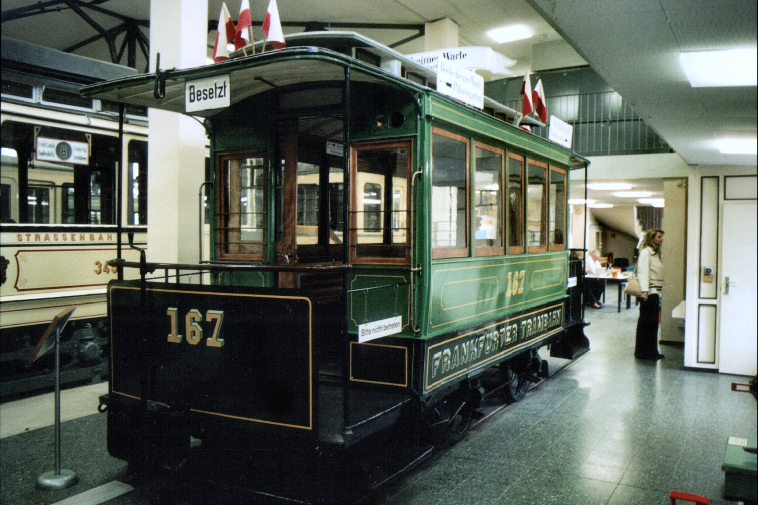 Car No. 167 of Frankfurter Trambahn-Gesellschaft at Frankfurt traffic museum. Created, scanned and uploaded by Philipp Gross.